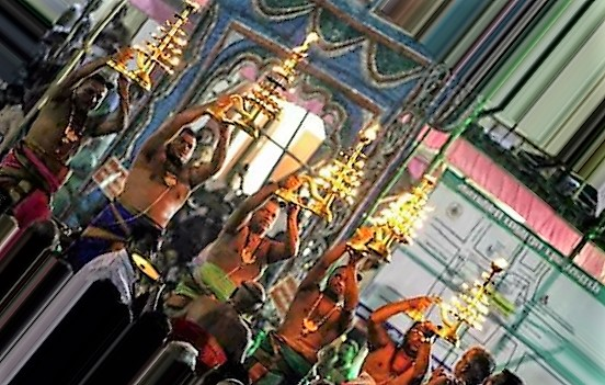 arati